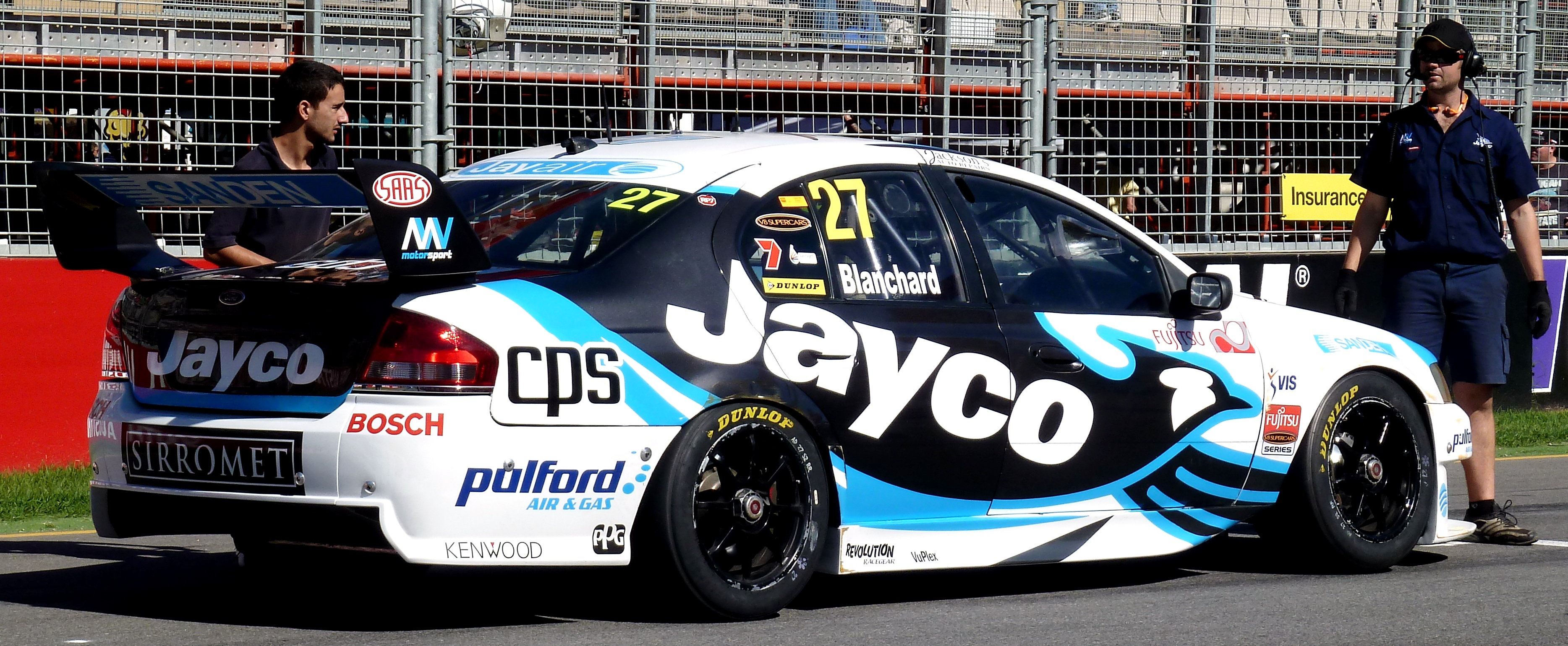 The Ford BF Falcon of Tim Blanchard on the grid at Clipsal 2011 before Race 2 of the 2011 Fujitsu V8 Supercars Series.